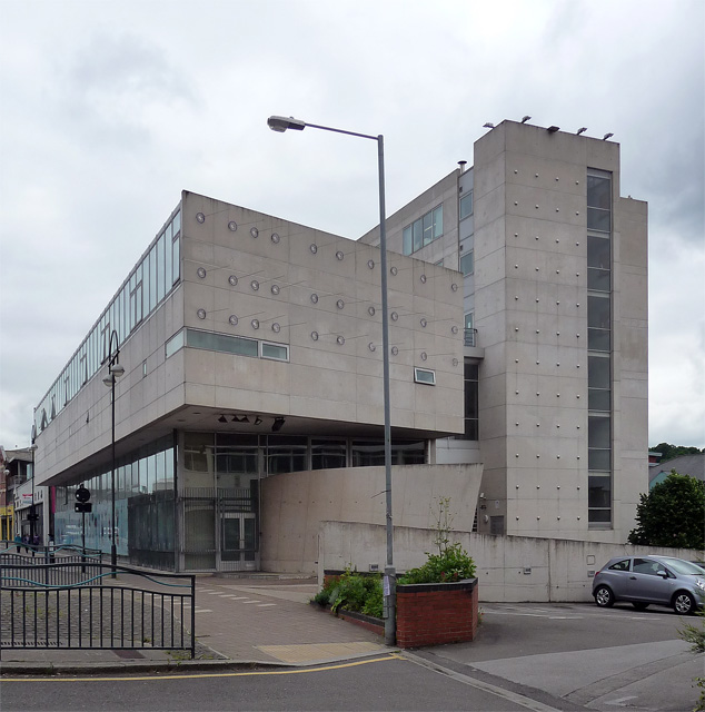 Persistence Works, Brown Street, Sheffield. By Feilden Clegg Bradley, 1998-2001. Clad in fair-faced concrete. Built for Yorkshire Artspace. Contains more than fifty studios.